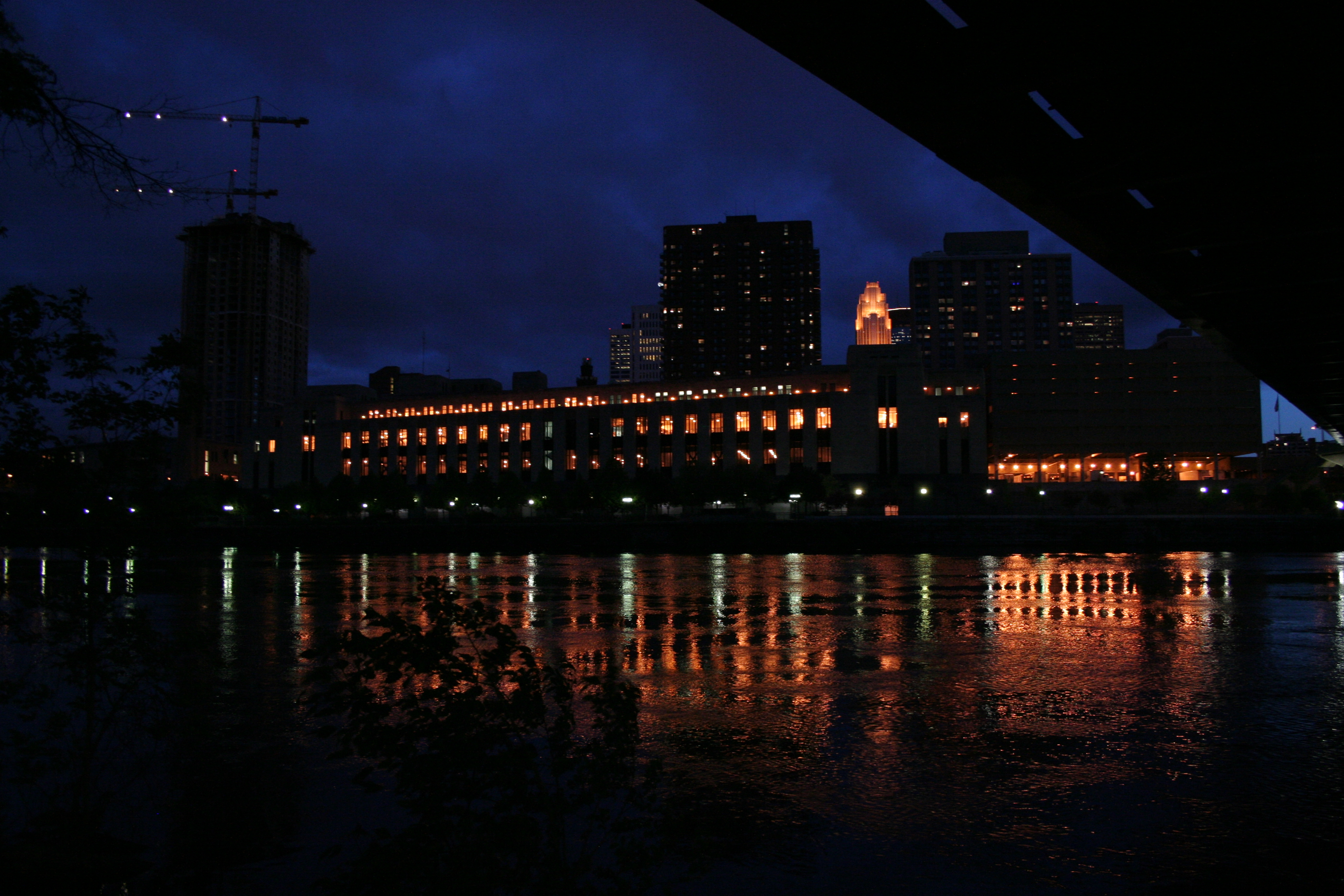 Wide view of the Minneapolis Post Office, on the Mississippi River.